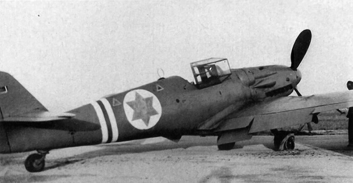 A IDF Avia S-199 in 1948.